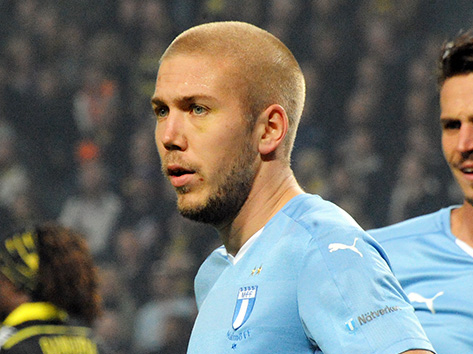 Anton Tinnerholm during the men's Fotbollsallsvenskan soccer game AIK-Malmö FF (2-1) at the Friends Arena in Solna, Sweden on 4 October 2015.